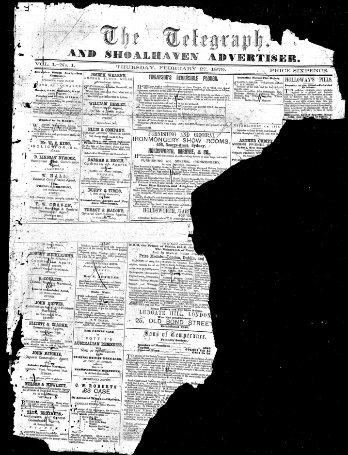 Front cover of Telegraph and Shoalhaven Advertiser (27 February 1879)